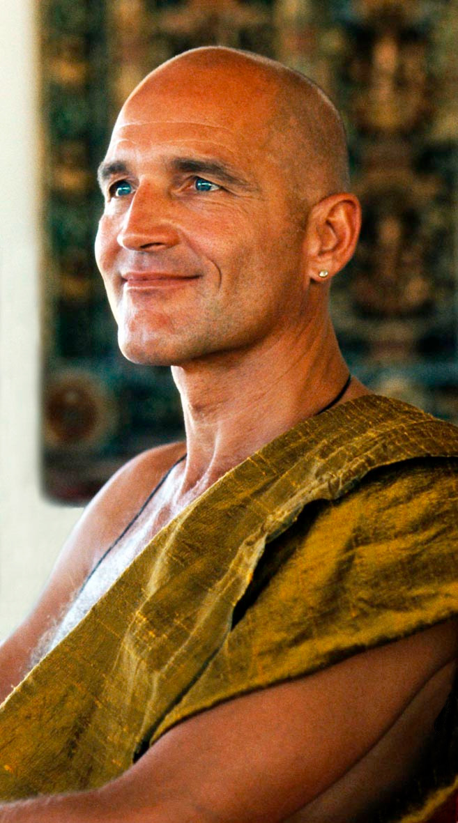 Picture of Madhukar - Master of Advaita.